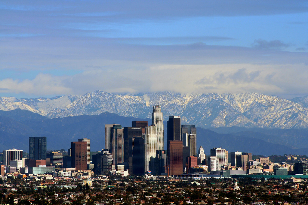 Downtown Los Angeles with San Gabriel Mountains in the background.